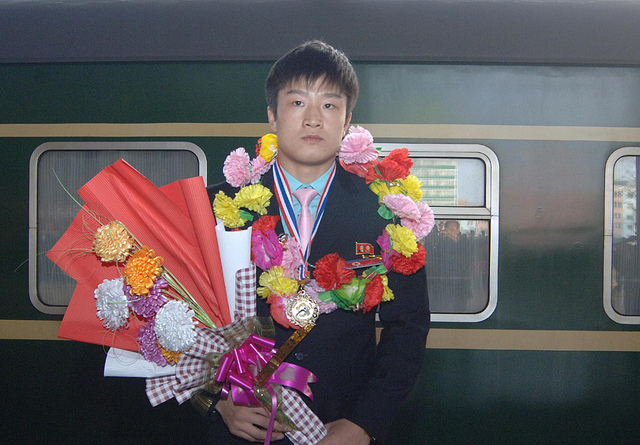 Hong gets awarded by DPRK